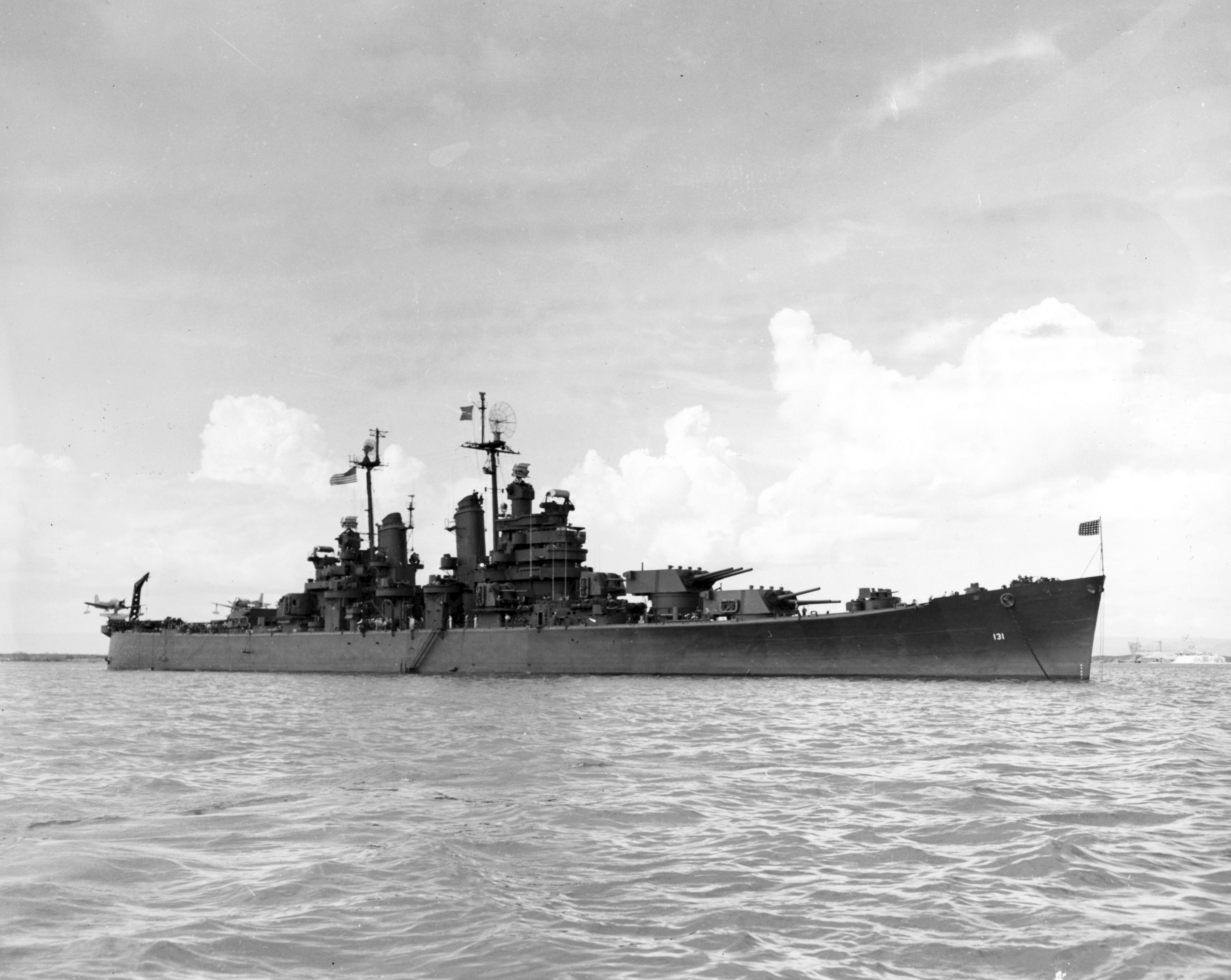 The U.S. Navy Baltimore-class heavy cruiser USS Fall River (CA-131) at anchor on 12 August 1945. She is painted in Camouflage Measure 21. Two Curtiss SC-1 Seahawk reconnaissance planes are on the catapults. Fall River was commissioned on 1 July 1945 and decommissioned already on 31 October 1947. She became known as the flagship of the nucelar test force at the Bikini Atoll between May and September 1946.